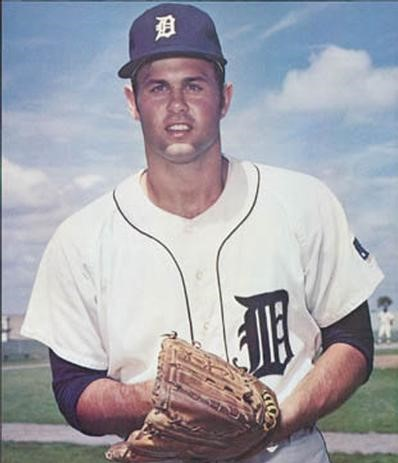 Image cropped from a baseball card of Chuck Seelbach from the 1973 Detroit Tigers Picture Pack B set.